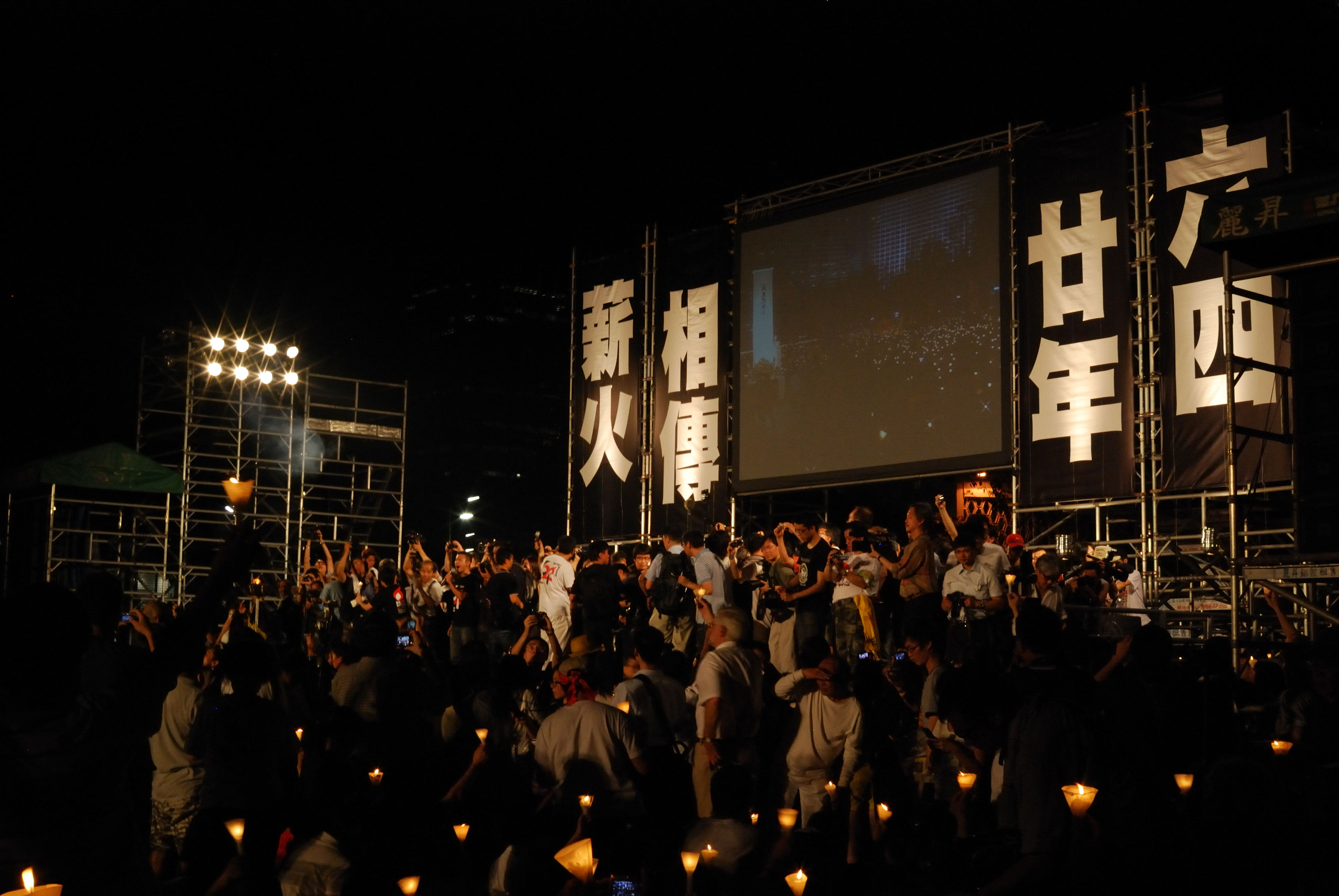 20th anniversary of the June 4th incident. A candlelight vigil was held in HK on June 4, 2009.